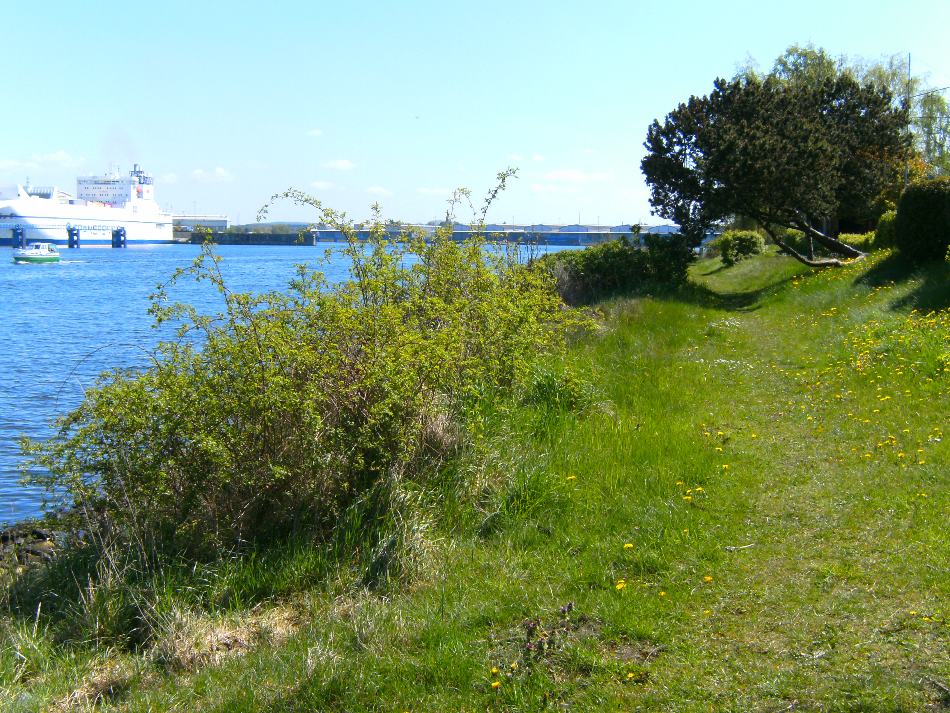 Lübeck-Kücknitz, Herrenwyk: Embankment of Herreninsel (Lübeck) towards river Trave.